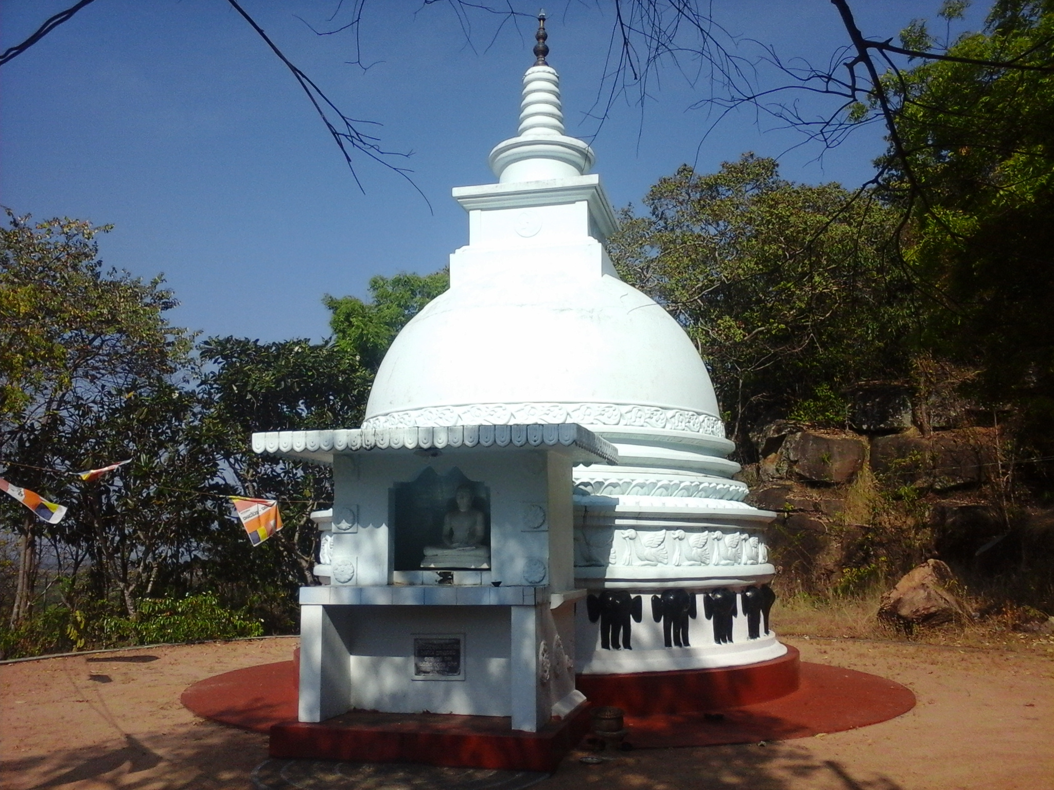 Pagoda of the Piyanagala